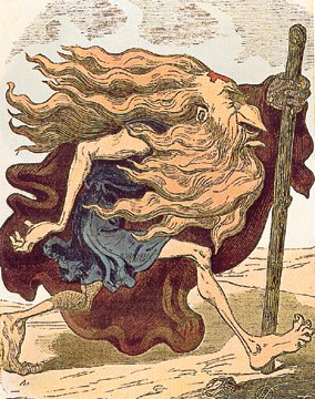 A Wandering Jew (Ahasverus). Jews are depicted as a nationa that has no roots.